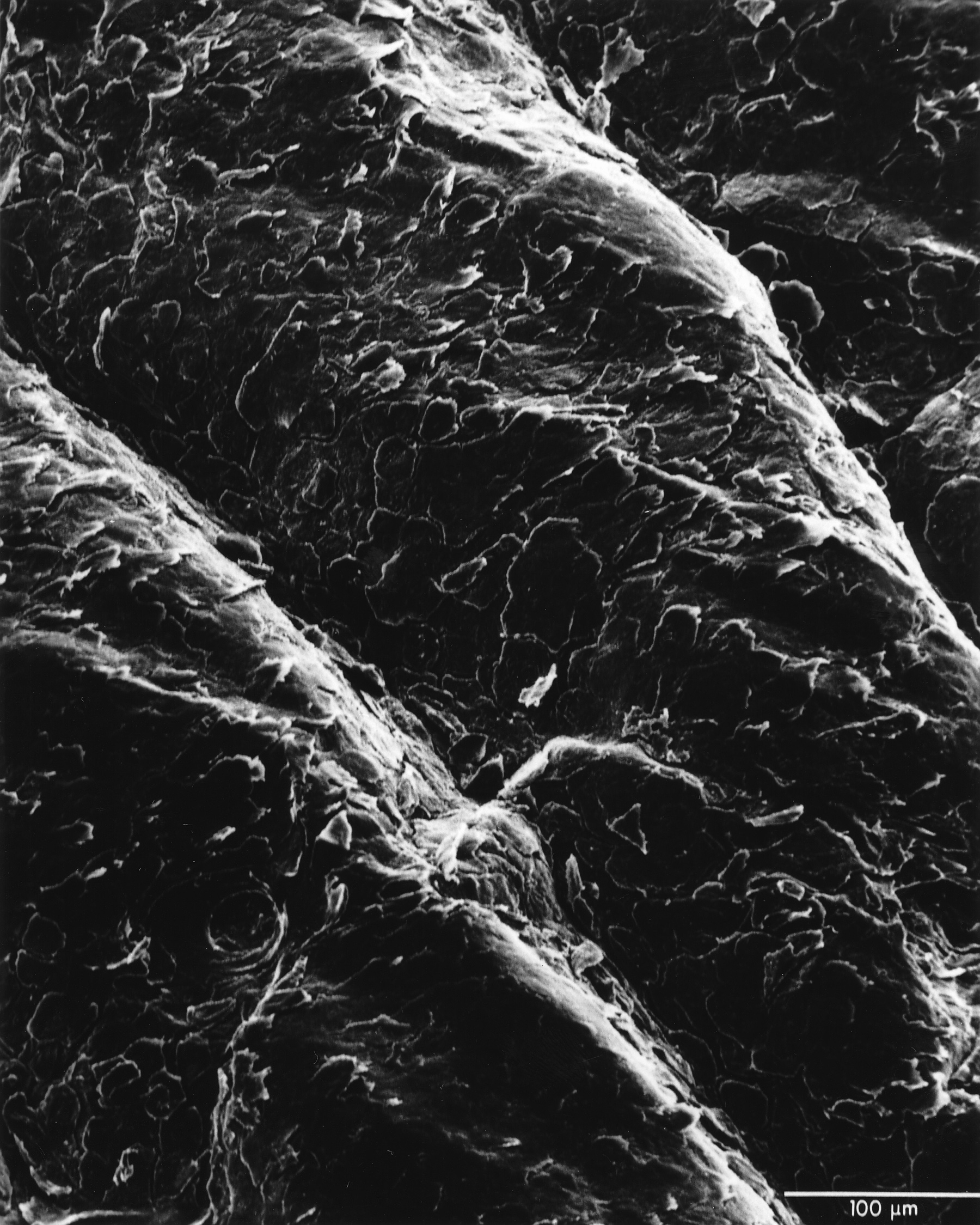 Title Skin Surface (Human) Description A scanning electron micrograph of the surface of human skin. Topics/Categories Anatomy -- Skin Cells or Tissue -- Abnormal Cells or Tissue Type B&W, Photo Source National Cancer Institute